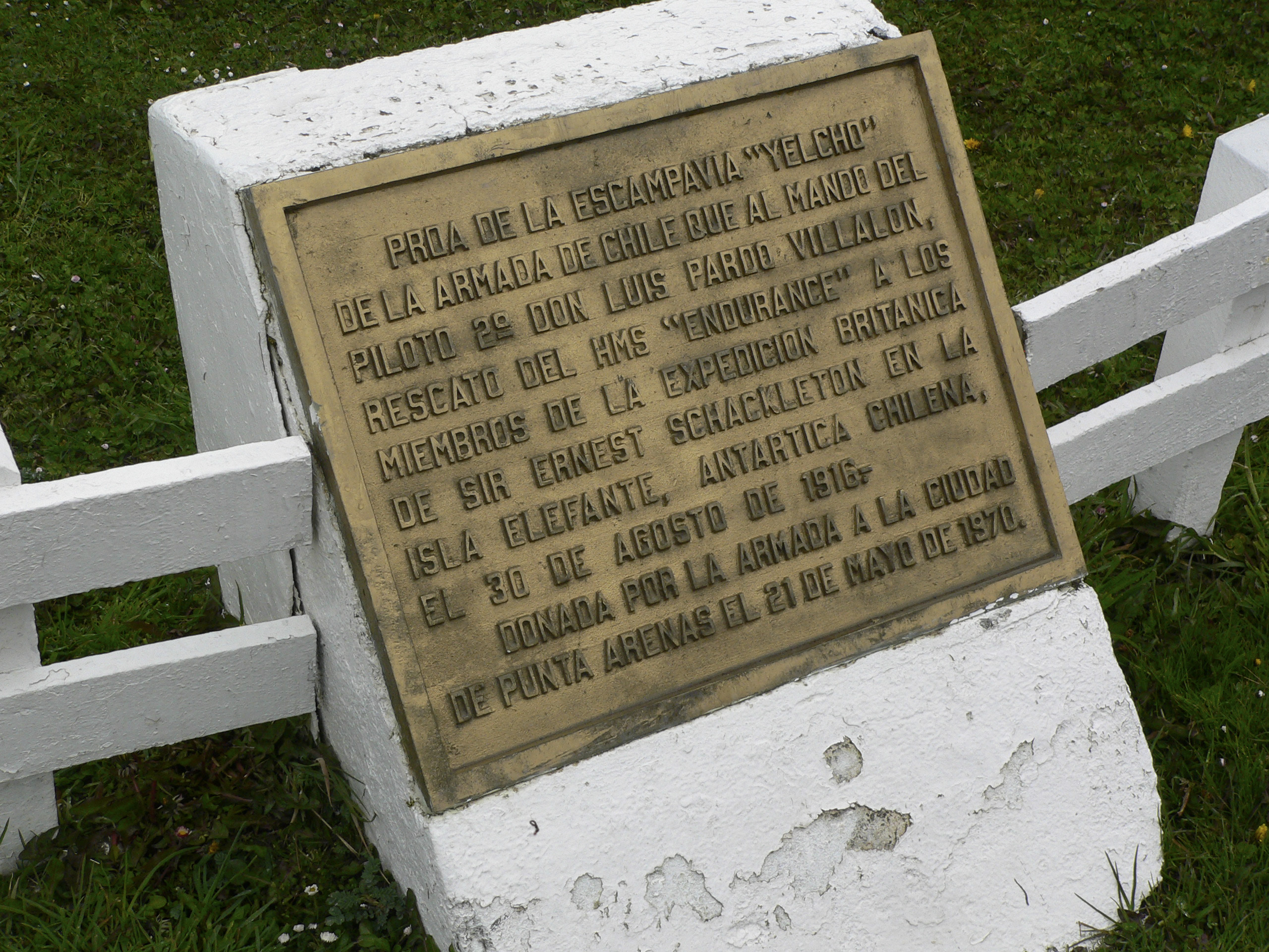 Puerto Williams. Description on the memorial for the rescue of Ernest Henry Shackleton an the tripulation o the Endurance